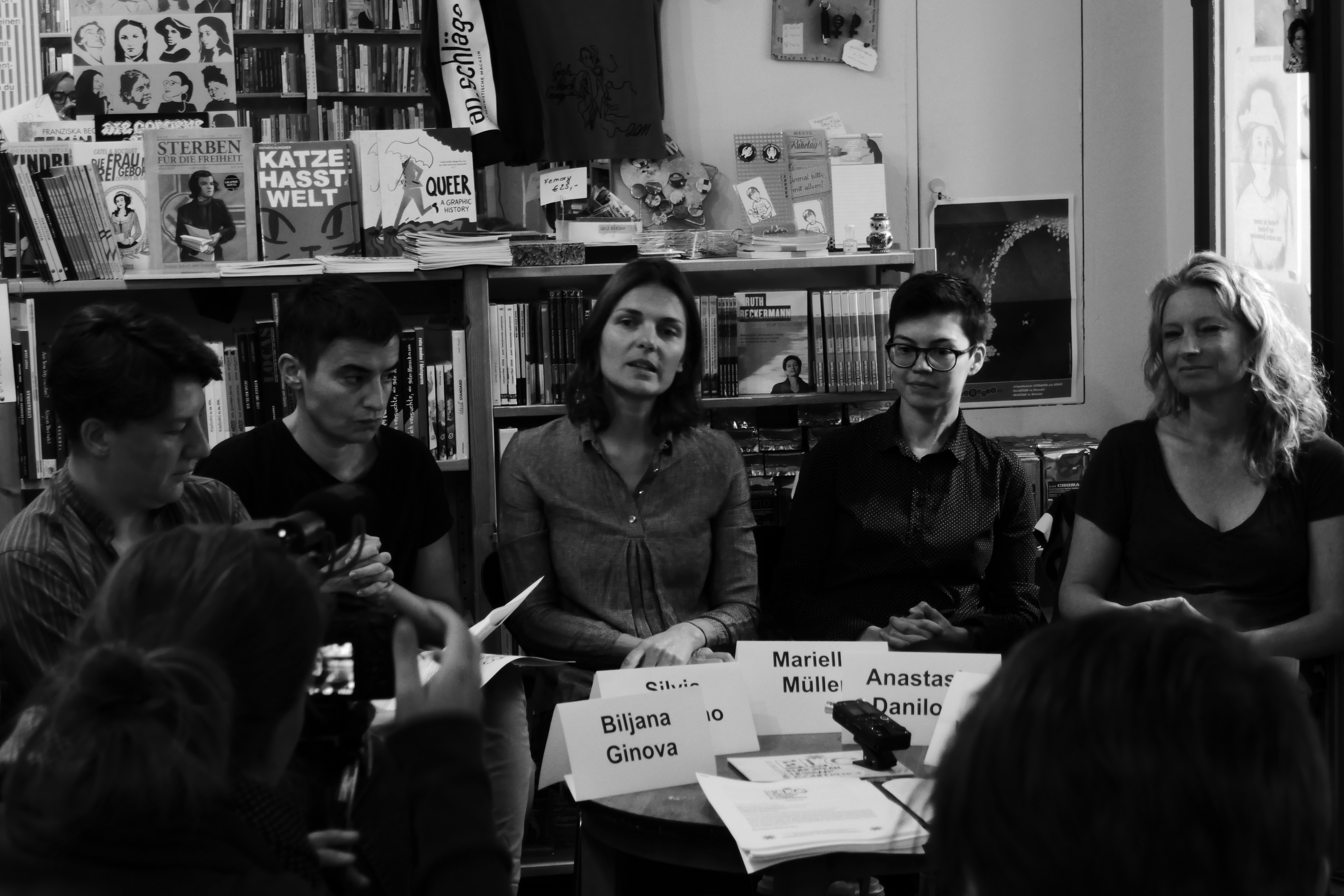 Biljana Ginova, Silvia Casalino, Mariella Müller, Anastasia Danilova and Maria von Känel